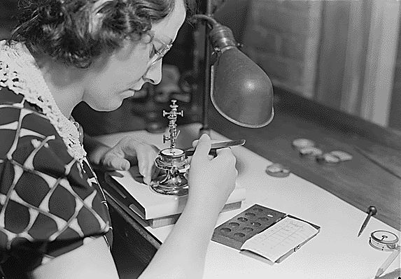 Lancaster, Pennsylvania - Hamilton Watches. Operation - vibrating hair spring - skilled operation - hair spring is placed into a vibrating machine and operator selects the hair spring with an elastcity which would vibrate a balance wheel with "period" of 18,000 times per hour. , 1936 - 1937, ARC Identifier: 518442